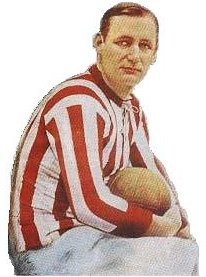 Fútbol. Jorge Brown, jugador de Alumni. Argentina. Soccer player from team Alumni.